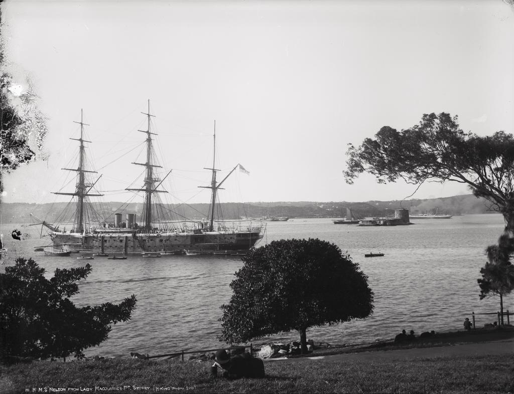 Format: Glass plate negative. Repository: Tyrrell Photographic Collection, Powerhouse Museum Part Of: Powerhouse Museum Collection General information about the Powerhouse Museum Collection is available at Persistent URL